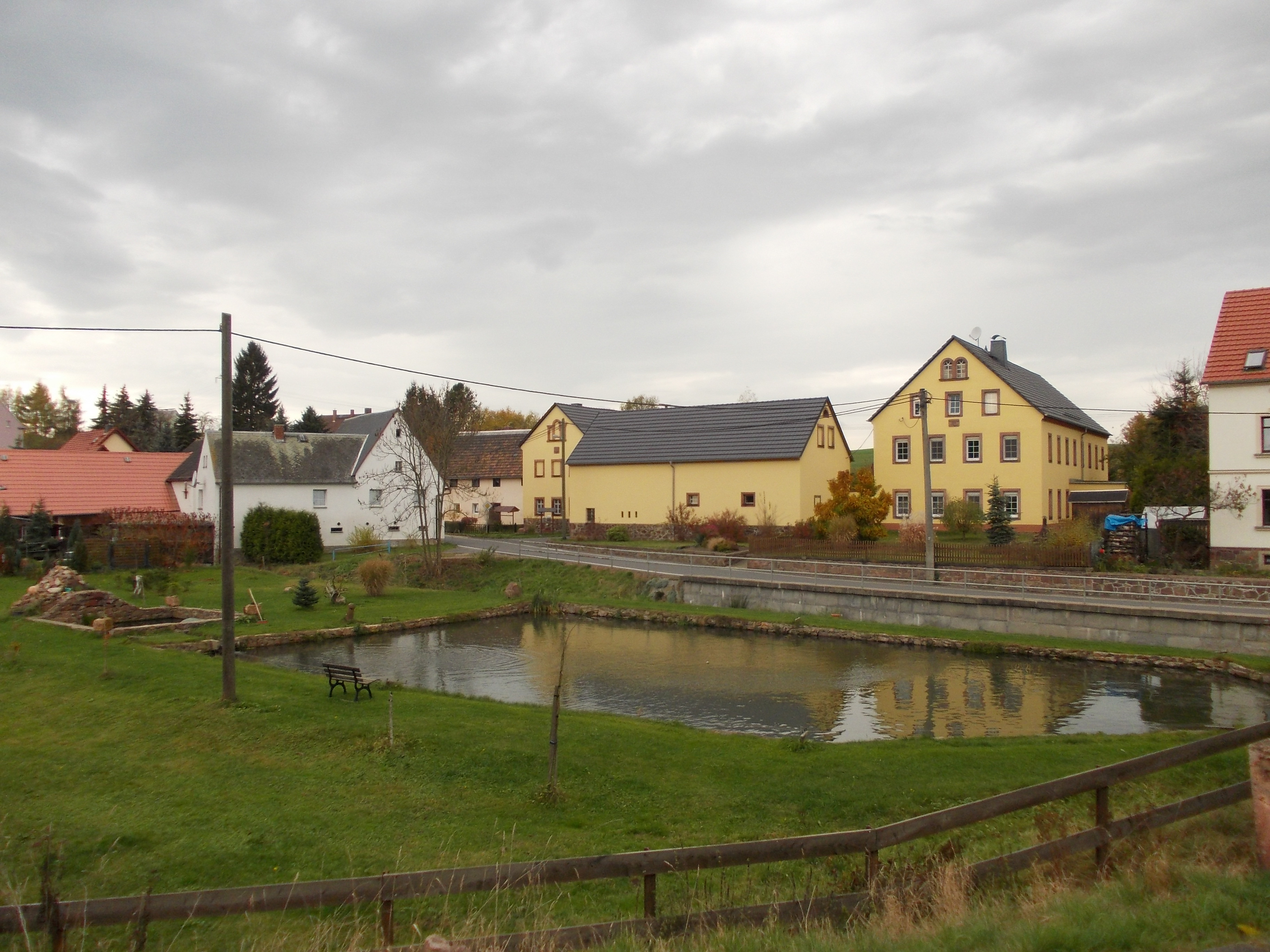 Pond in Köttwitzsch (Königsfeld, Mittelsachsen district, Saxony)